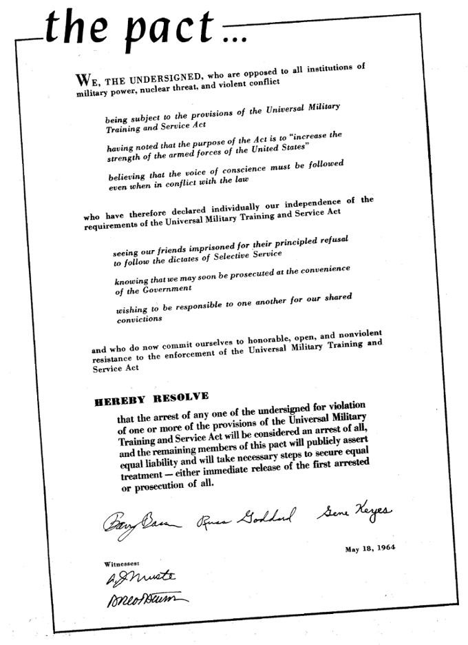 In May 1964, Gene Keyes, Russ Goddard, and Barry Bassin signed a draft-resistance Pact pledging to seek joint arrest if any one of them were arrested individually for refusing military conscription. This is the text of that Pact. For more details of the ensuing events